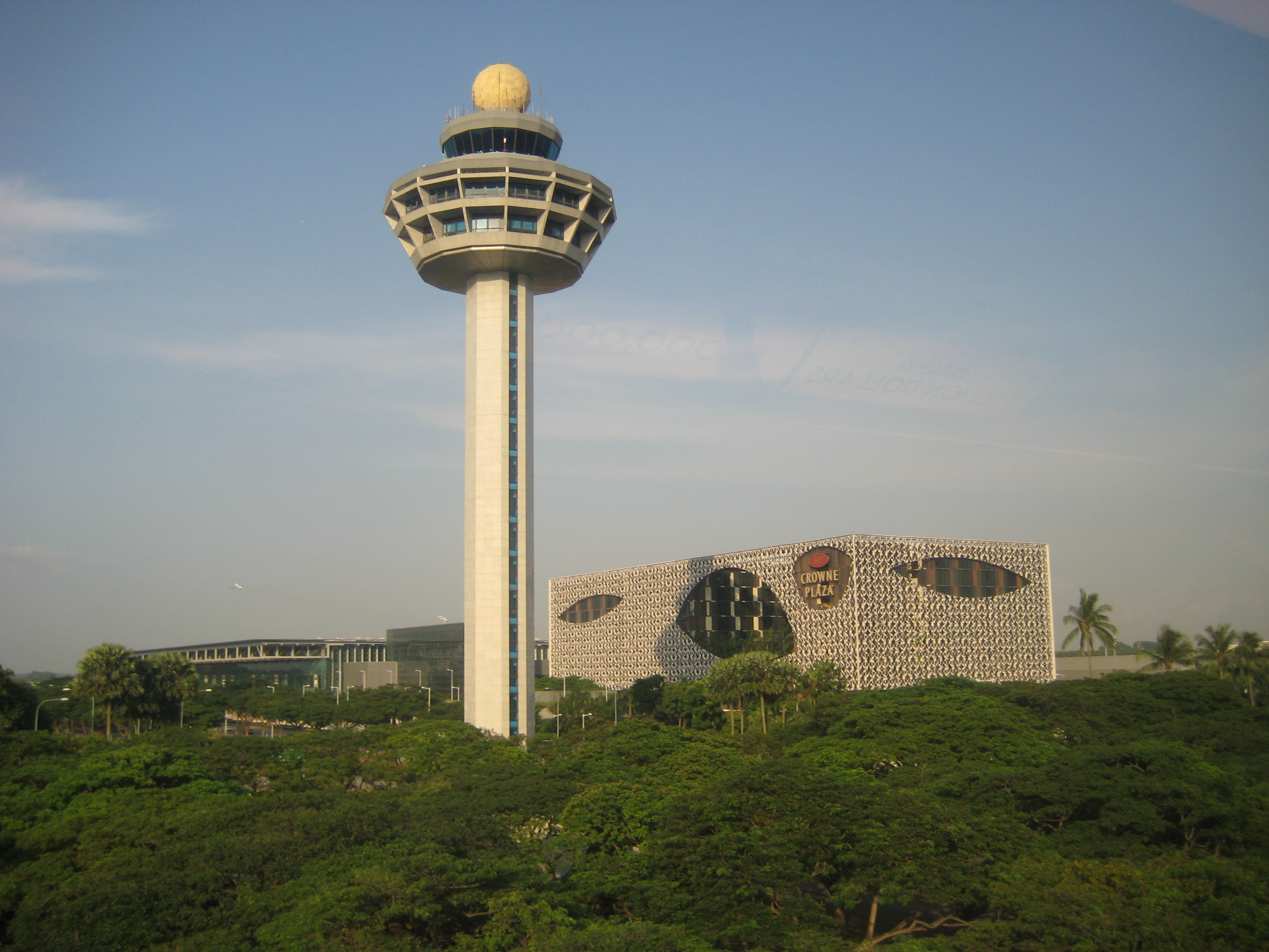 Airport of Singapore + Crowne Plaza.